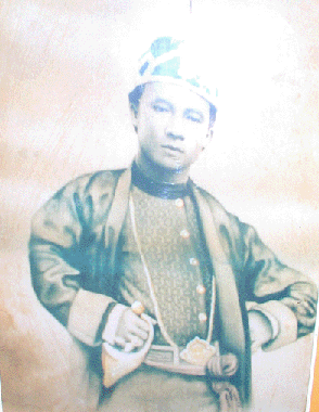 A portrait of Phra Chonlathan Vinnicchai (Chun), a Thai noble of Vietnamese descendant who serves as an official during Rama V's reign. Displayed at The Wat Samanaanam Borihan, Bangkok, Thailand.